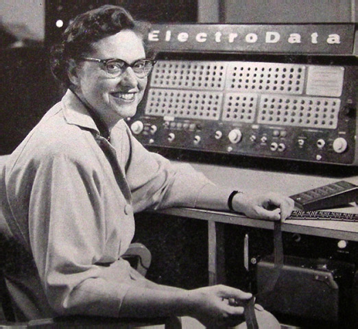 Photograph of Sibyl M. Rock in the article "Sibyl Rock puts digits to work" in Control Engineering, February 1955, p. 11. Mathematician Sibyl Rock is seated, smiling, in front of an ElectroData computer. No copyright renewal. No author identified. No photographer identified.